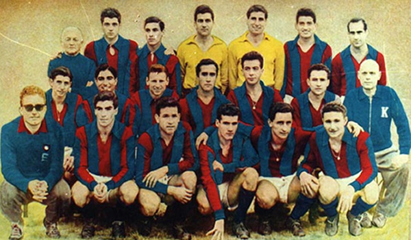 San Lorenzo de Almagro, 1959 Argentine first division champion.